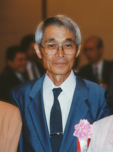 Hirotugu Akaike This Image by The Institute of Statistical Mathematics is licensed under a Creative Commons Attribution-ShareAlike 4.0 International License.